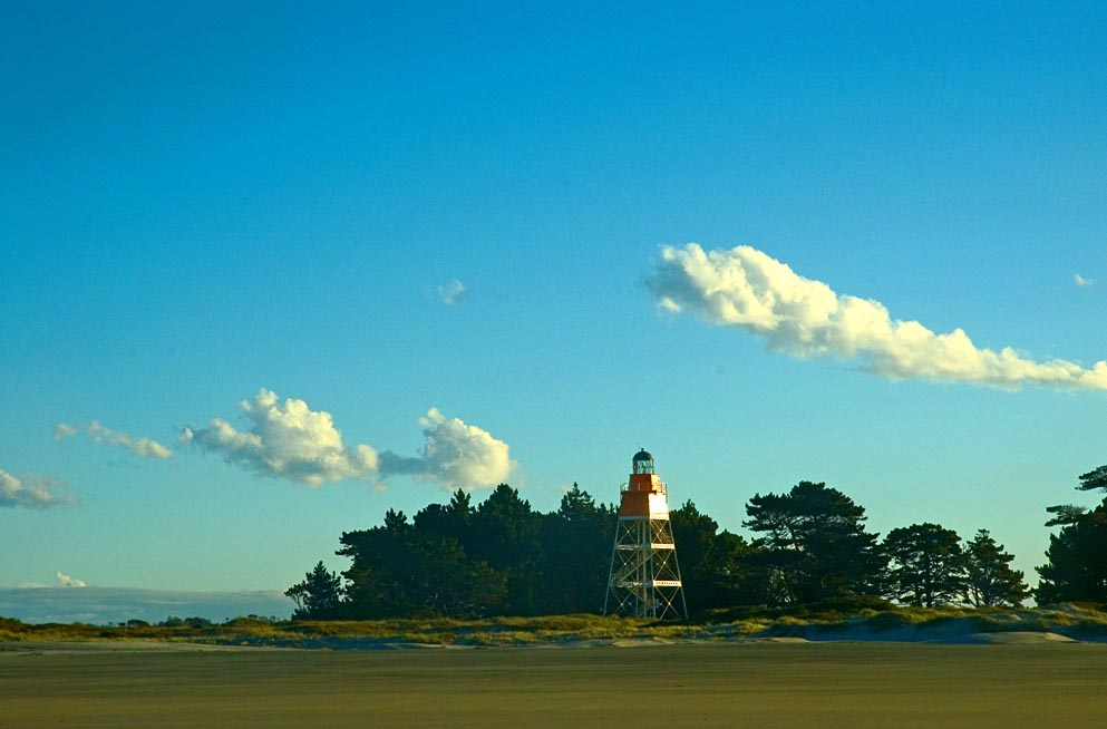 automated lighthouse on Farewell Spit